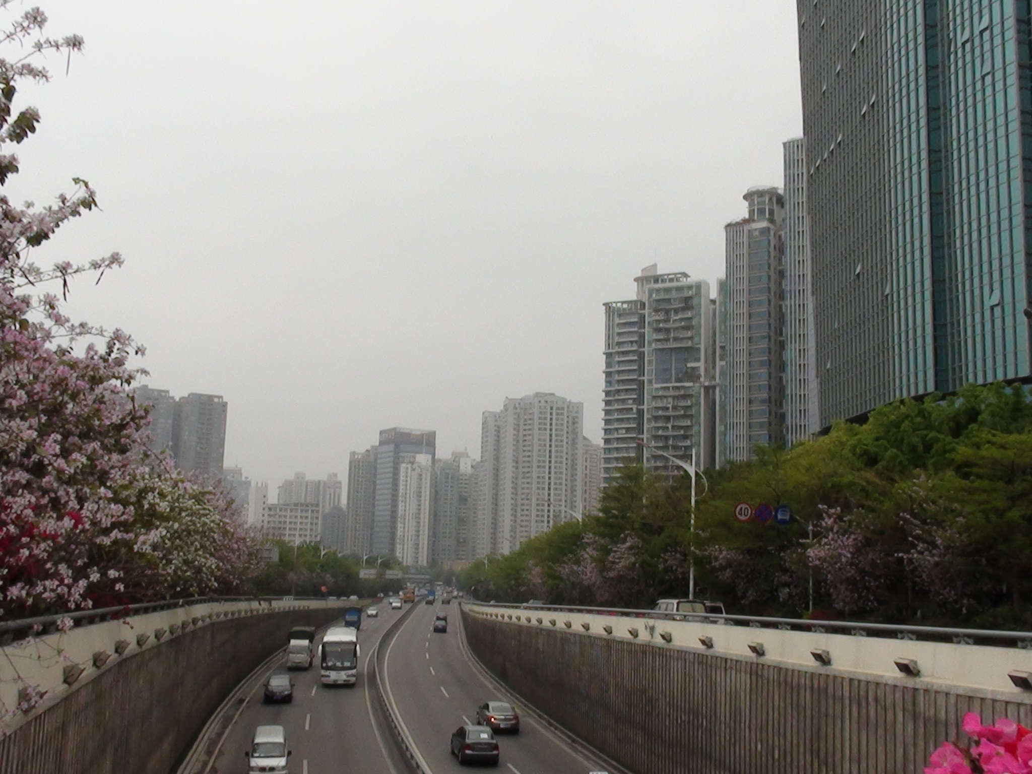 Nanhai Avenue in Nanshan District, Shenzhen.